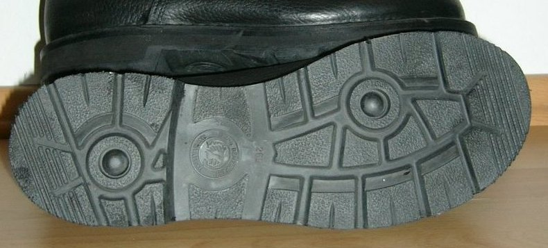 Military boots M 2007 as used in the German Military